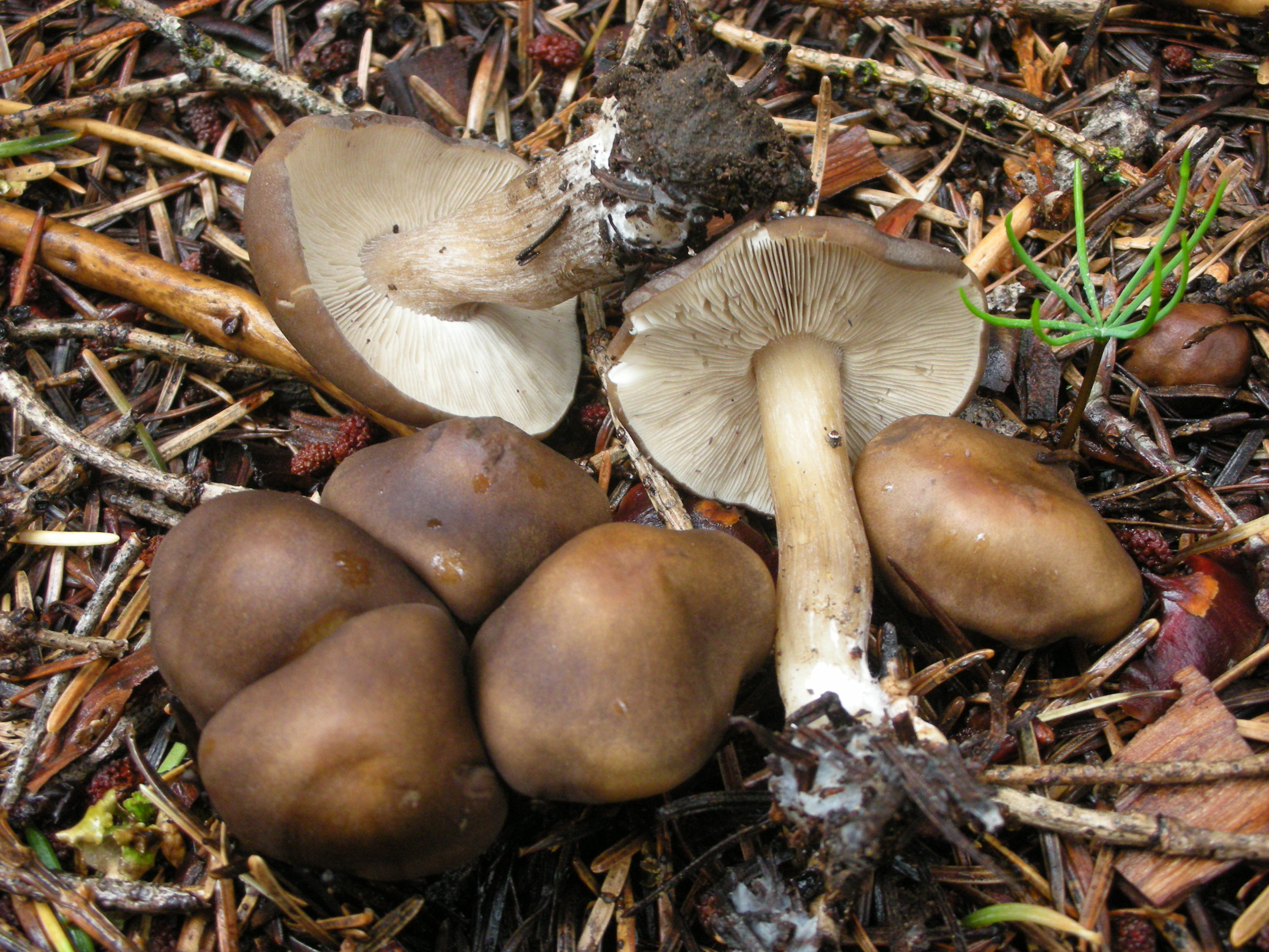 Melanoleuca angelisiana A.H. Smith Location: Evergreen Rd., Stanislaus National Forest, Tuolumne Co., California, USA For more information about this, see the observation page at Mushroom Observer.